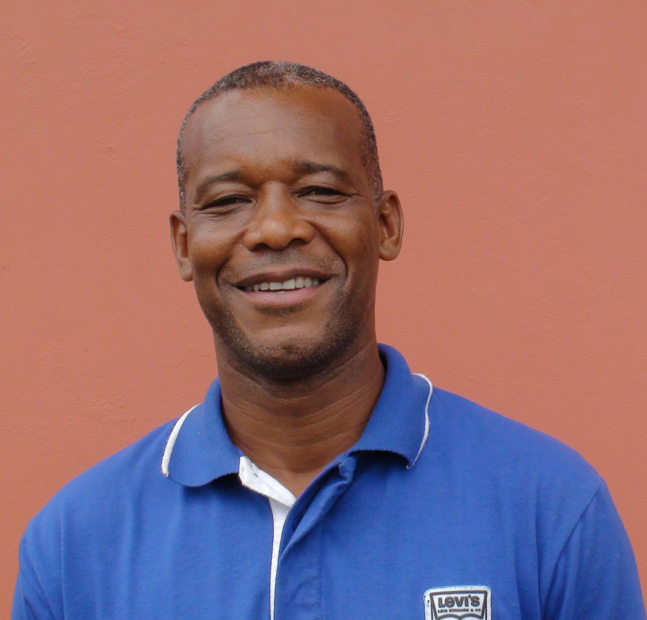 Former Costa Rican footballer Juan Cayasso at the Big Boy Stadium in Limón, Costa Rica